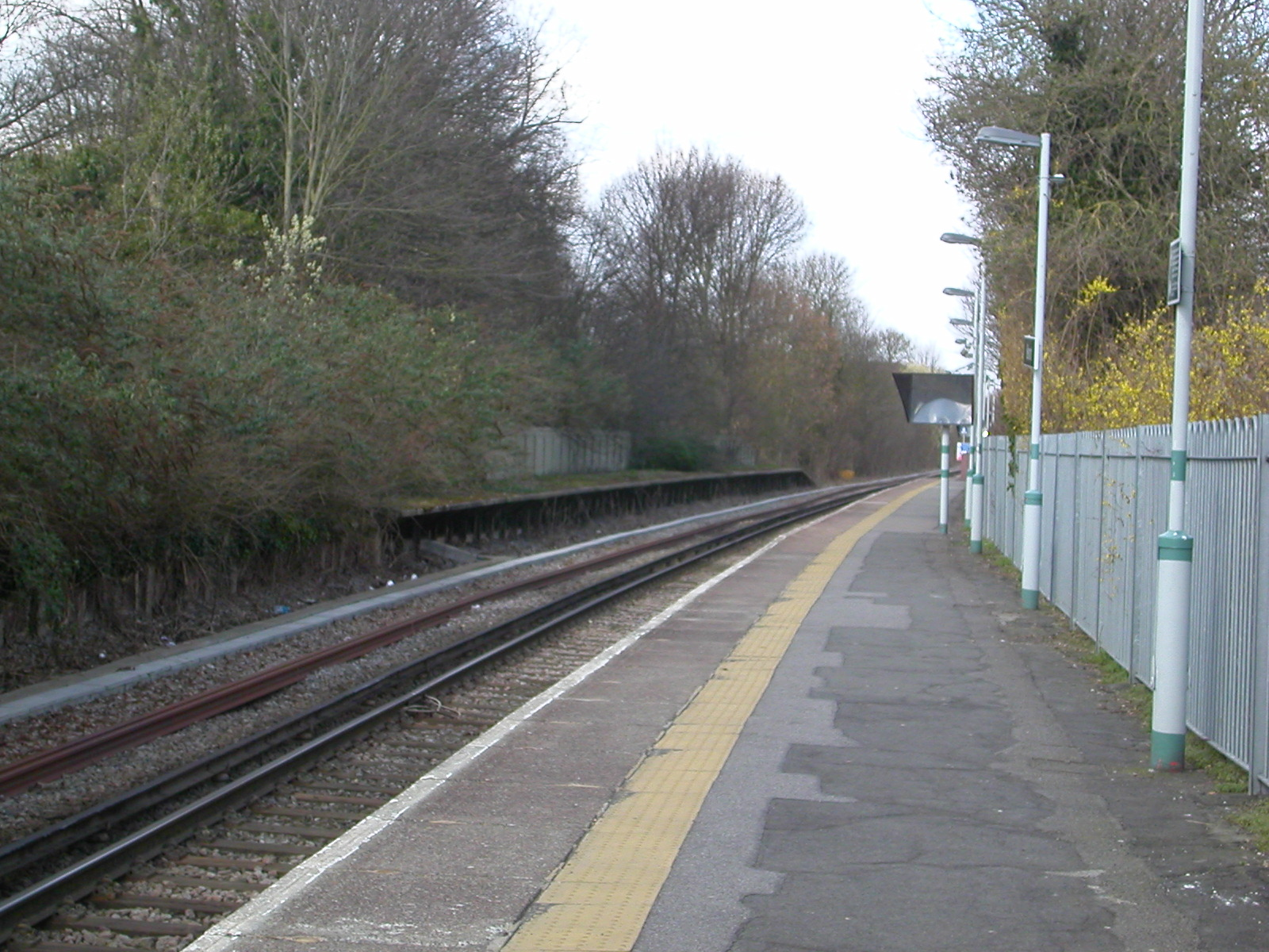 Former Up platform at Belmont station. Photographed on 17th March 2007.